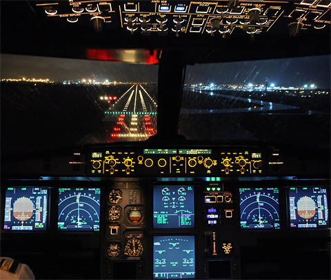 Runway view from A320 cockpit while night landing. Bigger size